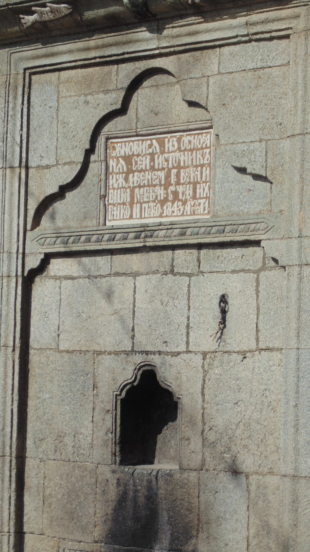 Saint Nicholas church, Koprivshtitsa